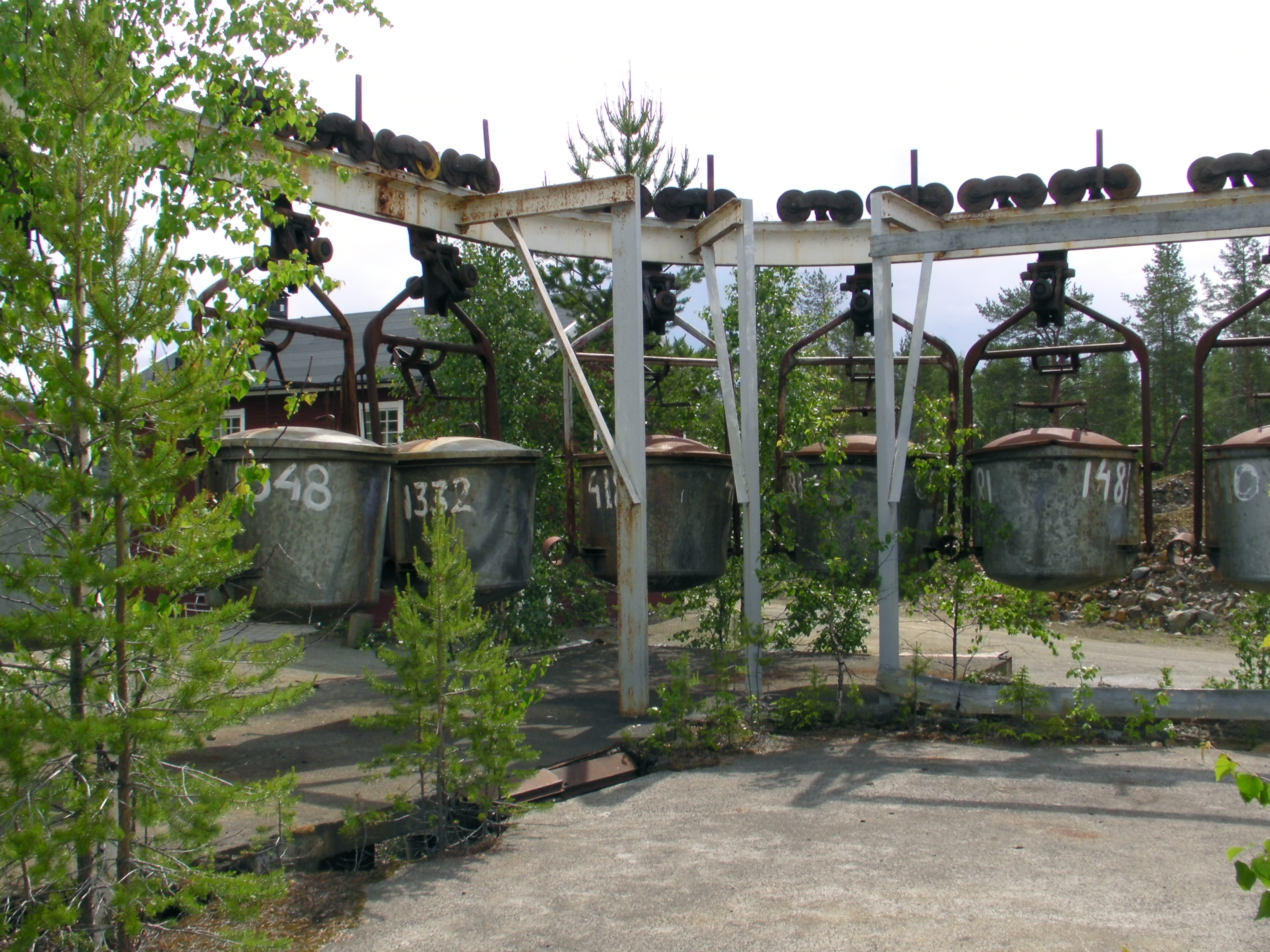 A preserved stretch of the Kristineberg-Boliden cableway at one end of the section converted for passenger traffic. This piece has been left untouched place to show the ore cableway in its operational state.